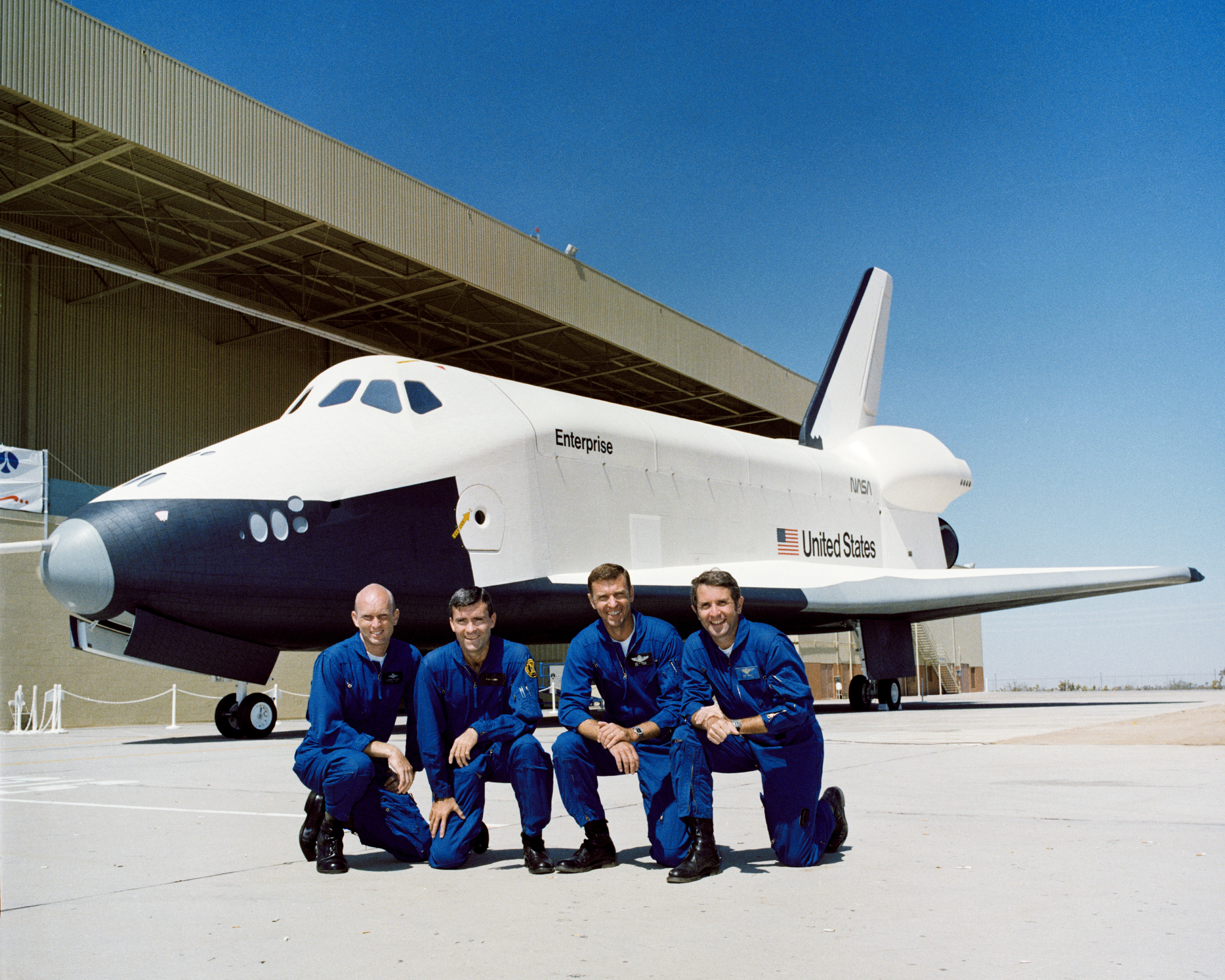 The two crews for the Space Shuttle Approach and Landing Tests (ALT) are photographed at the Rockwell International Space Division's Orbiter assembly facility at Palmdale, California on the day of the rollout of the Shuttle Orbiter 101 "Enterprise" spacecraft. They are, left to right, Astronauts C. Gordon Fullerton, pilot of the first crew; Fred W. Haise Jr., commander of the first crew; Joe H. Engle, commander of the second crew; and Richard H. Truly, pilot of the second crew. The DC-9 size airplane-like Orbiter 101 is in the background. Image ID: S76-29562